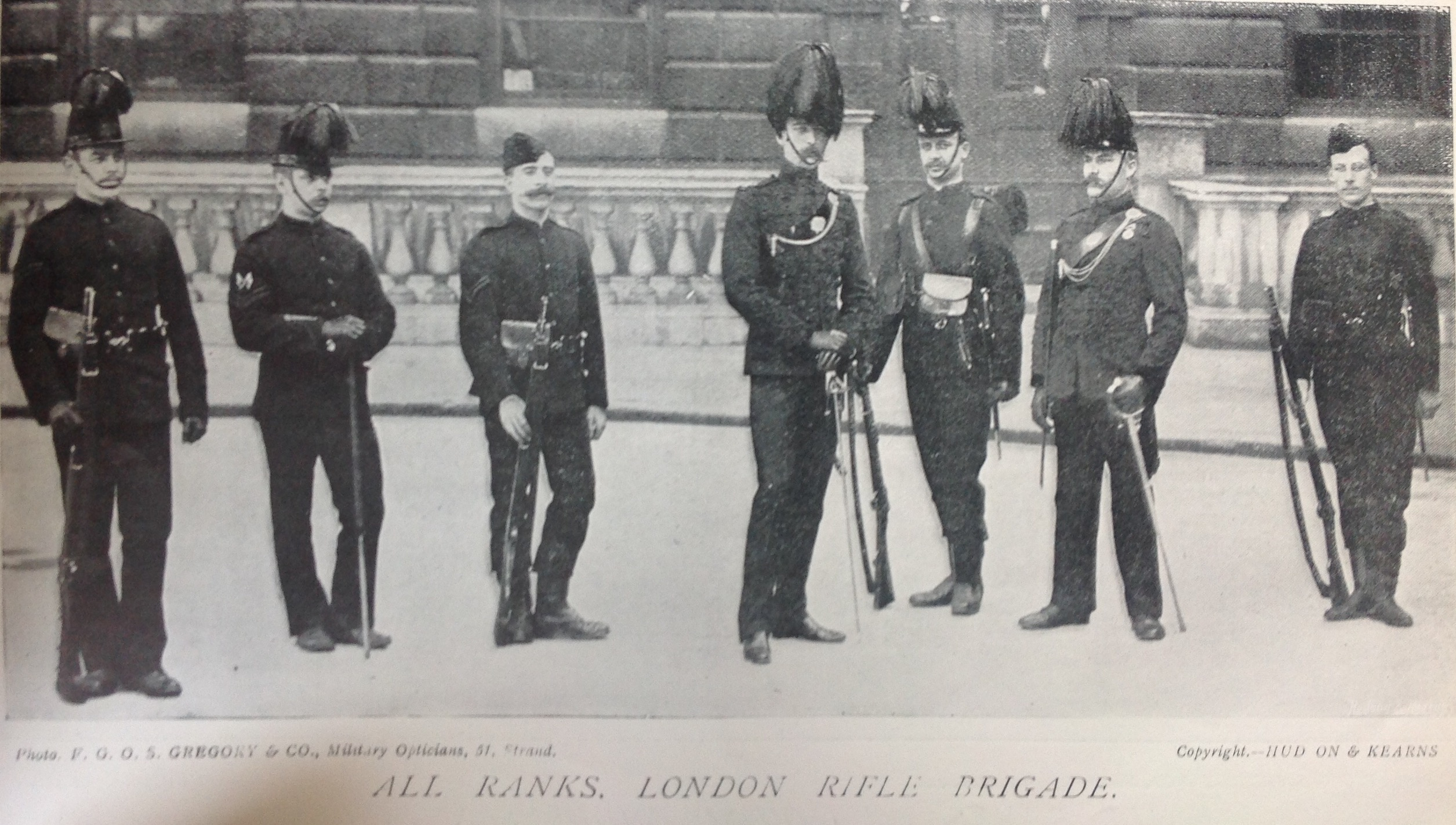 All ranks group of the London Rifle Brigade. Pictured in the Navy and Army Illustrated published on 9 April 1896